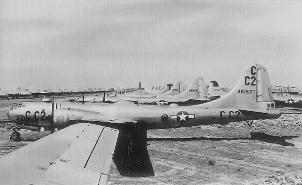 B-29 stored at Pyote AAF, Texas about 1946 Source: United States Army Air Forces via Thole, Lou (1999), Forgotten Fields of America : World War II Bases and Training, Then and Now - Vol. 2. Publisher: Pictorial Histories Pub, ISBN: 1575100517